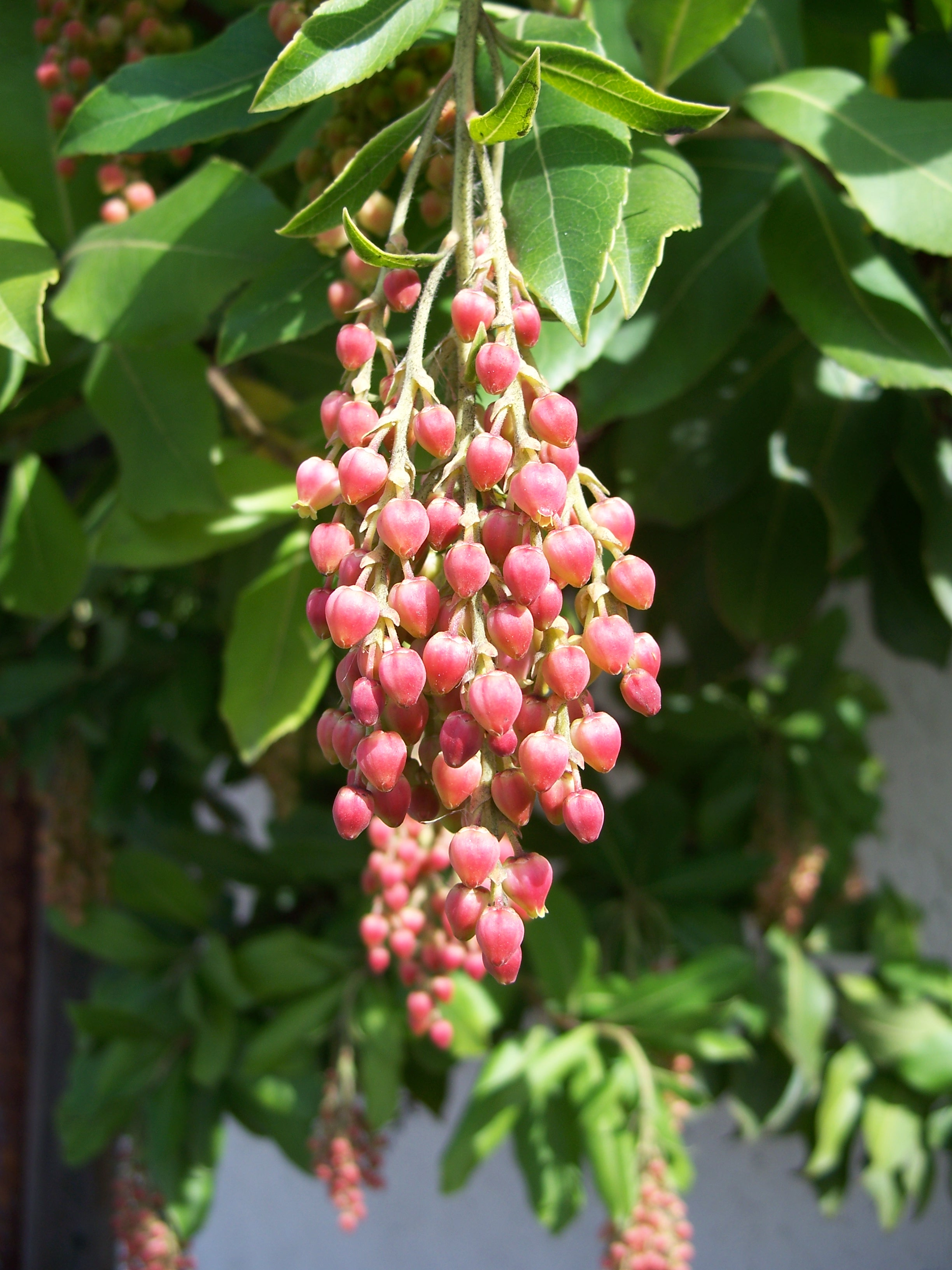 Arbutus menziesii — Pacific Madrone; flowers In San Jose, Santa Clara County, California. Identified by Ies and Luis Fernández García.